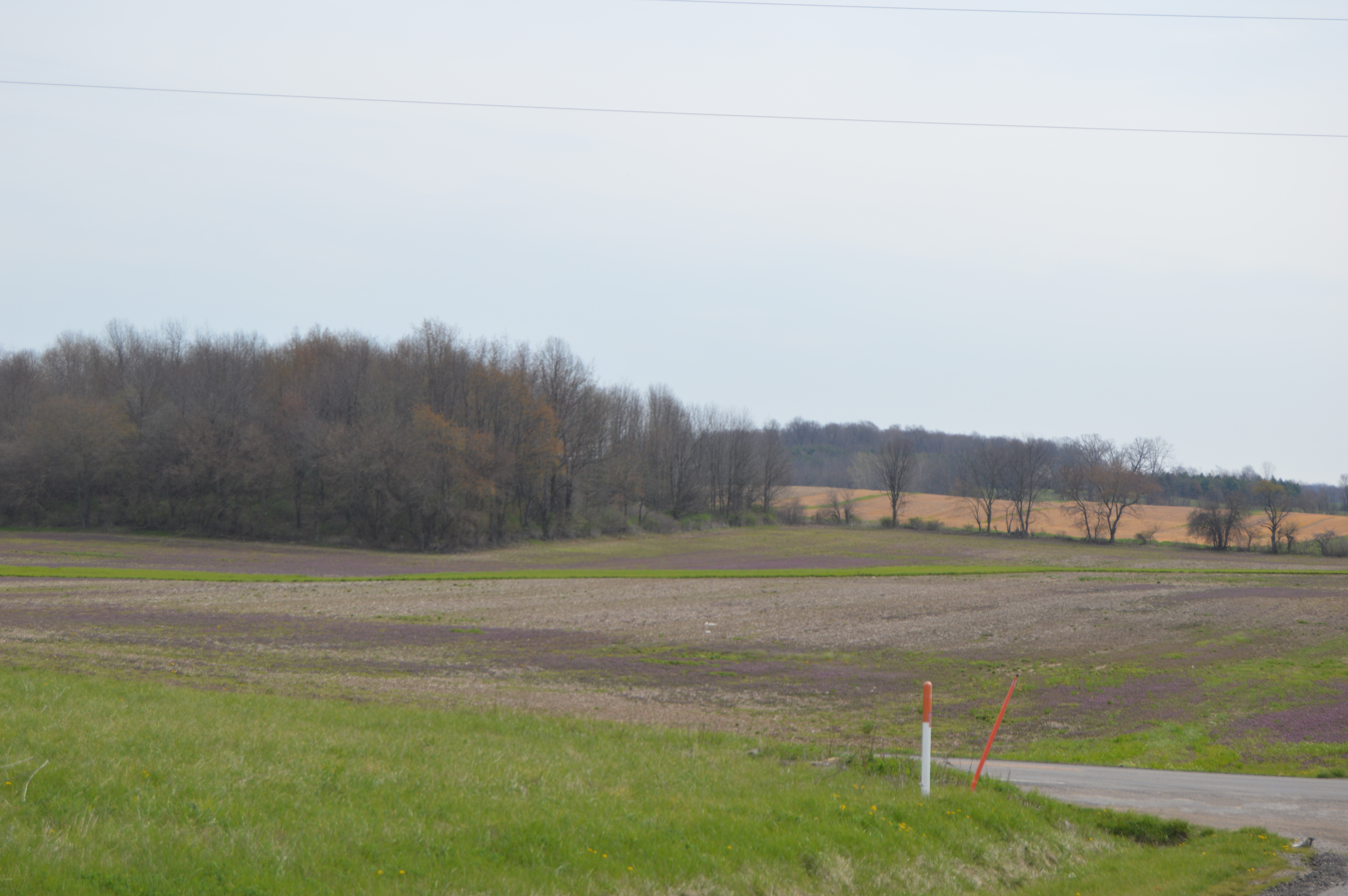 Woods and stubble fields at the intersection of Dinninger and Springmill Roads in far western Cass Township, Richland County, Ohio, United States.